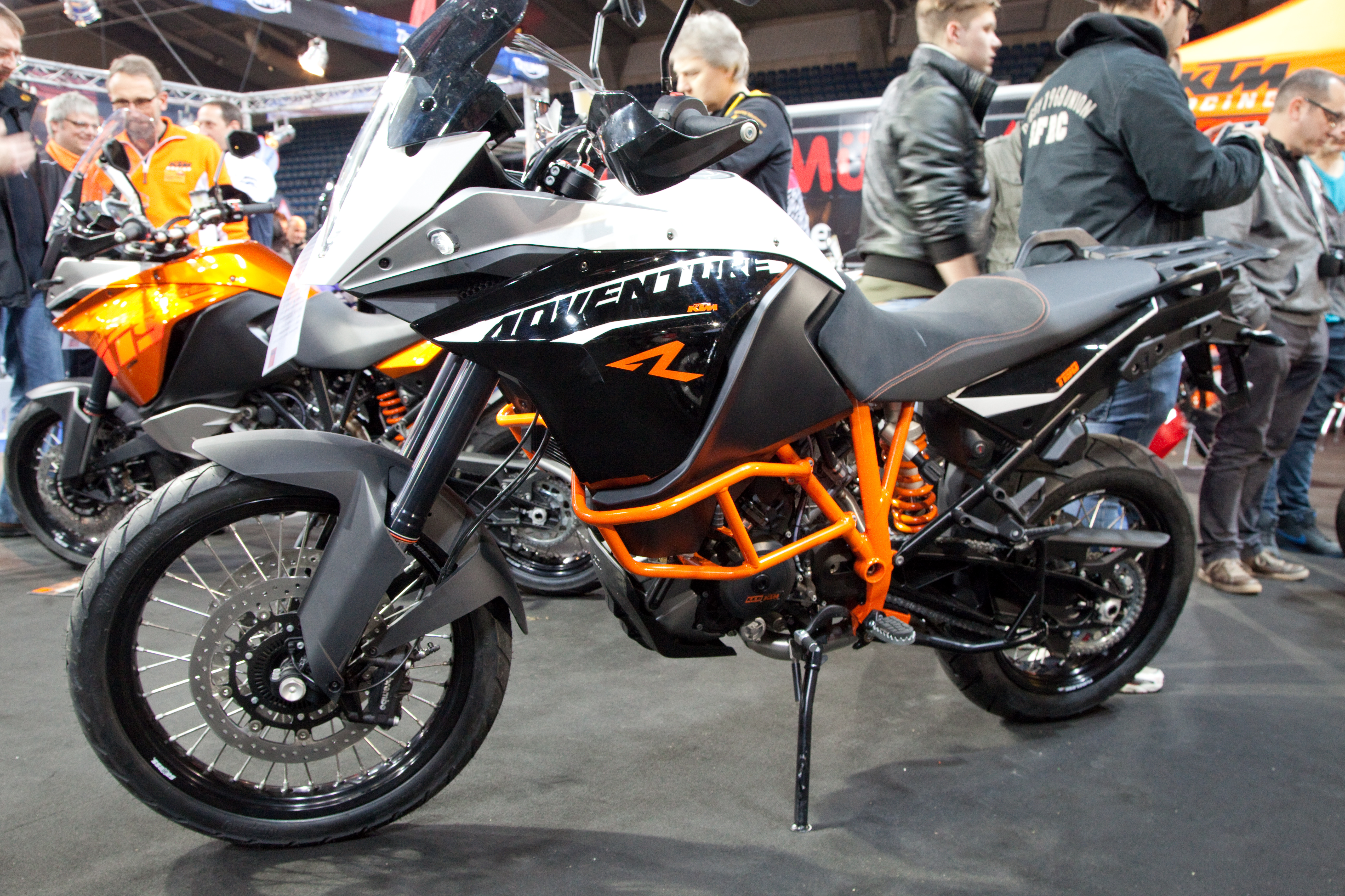 Dual-sport motorcycle by KTM Design: 2-cylinder, 4-stroke, spark-ignition engine, 75° V arrangement, liquid-cooled Displacement: 1,195 cm³ Performance: 110 kW (148 hp)